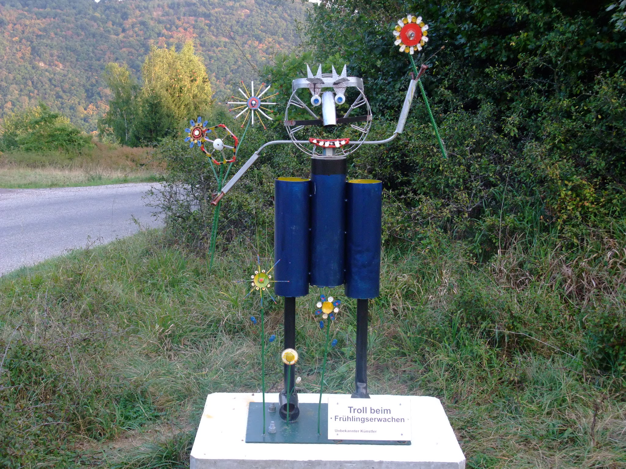 Anonymous sculpture showing a troll at spring, in the sculpture garden at Oberwesel (Germany)